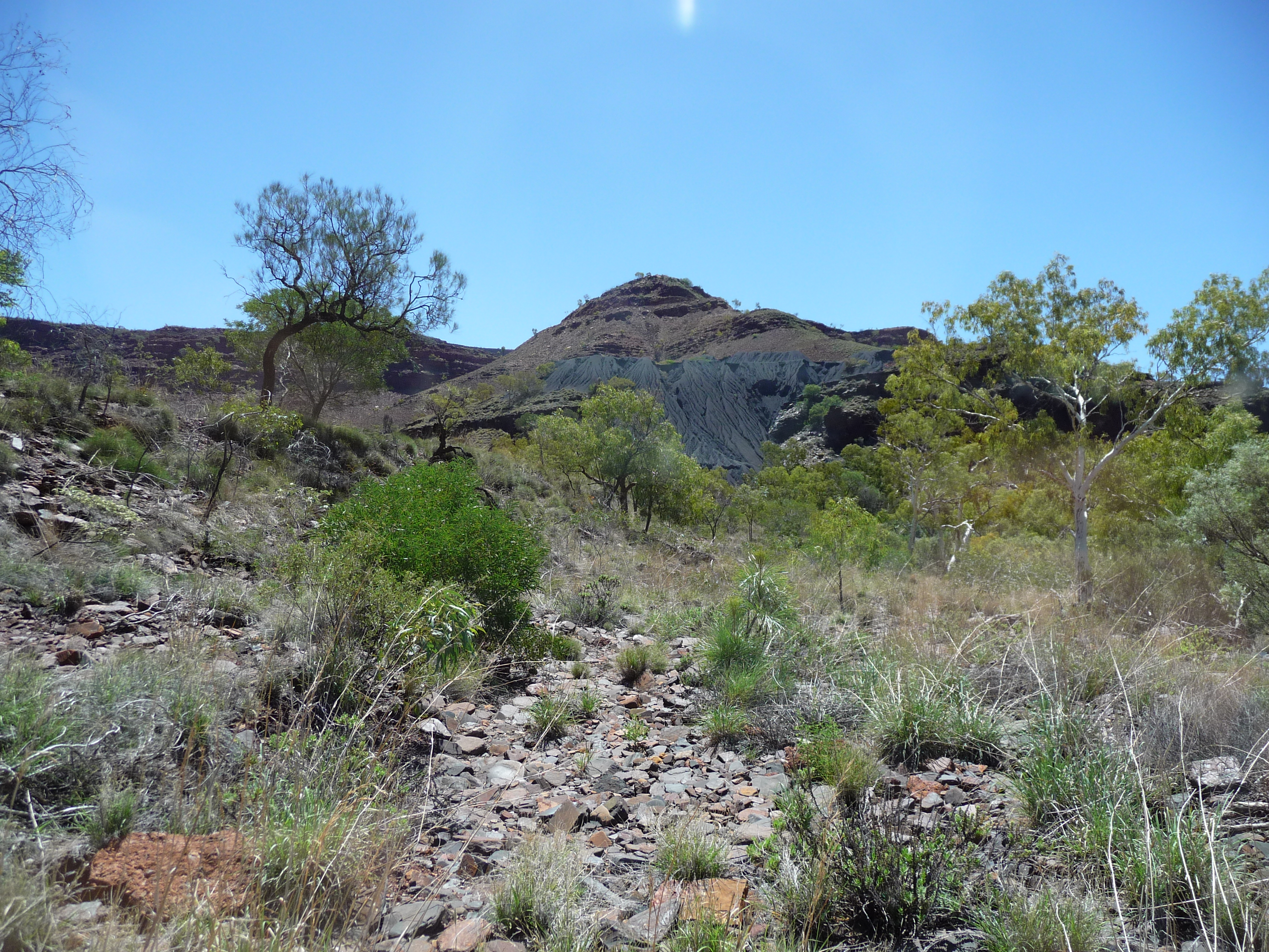 Mine tailings near Wittenoom in Western Australia